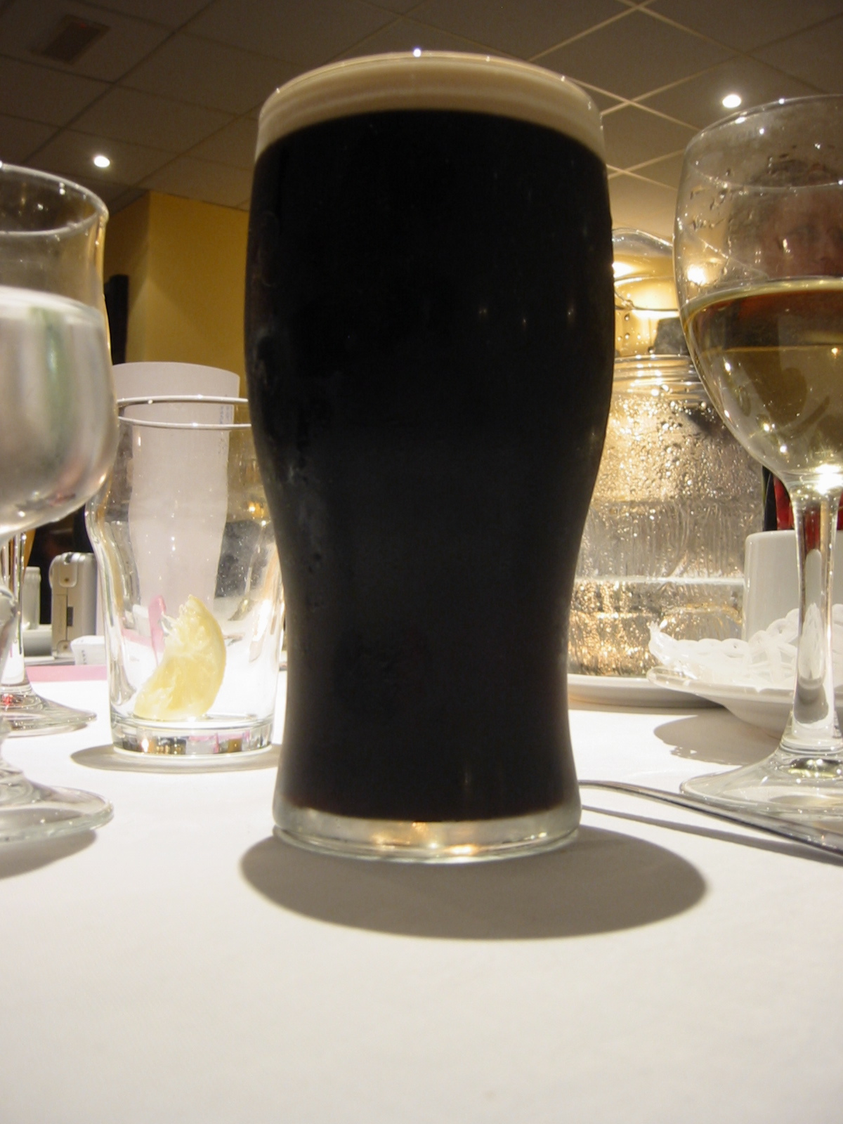 Some kind of delicious.